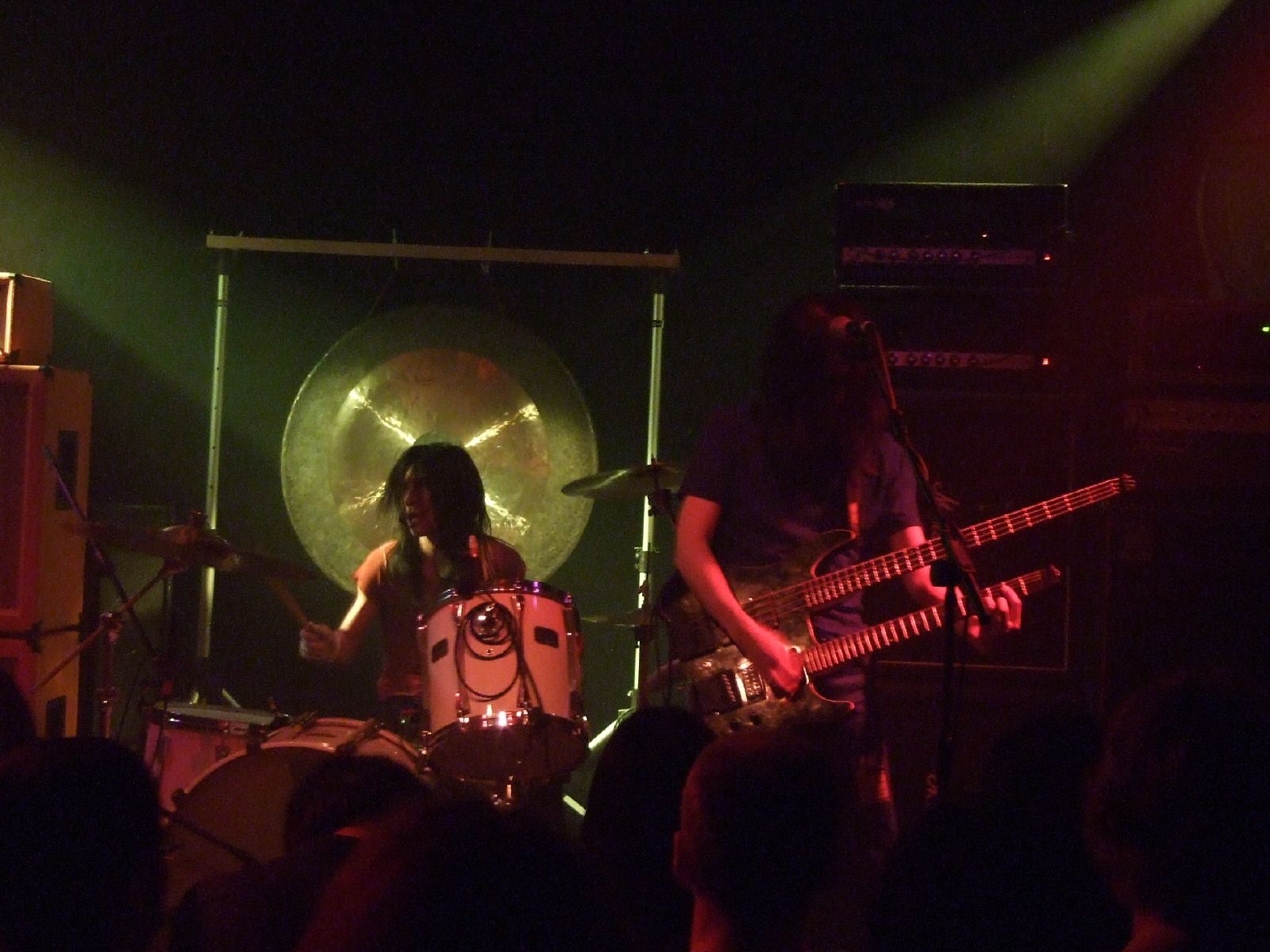 Boris are a Japanese heavy rock band